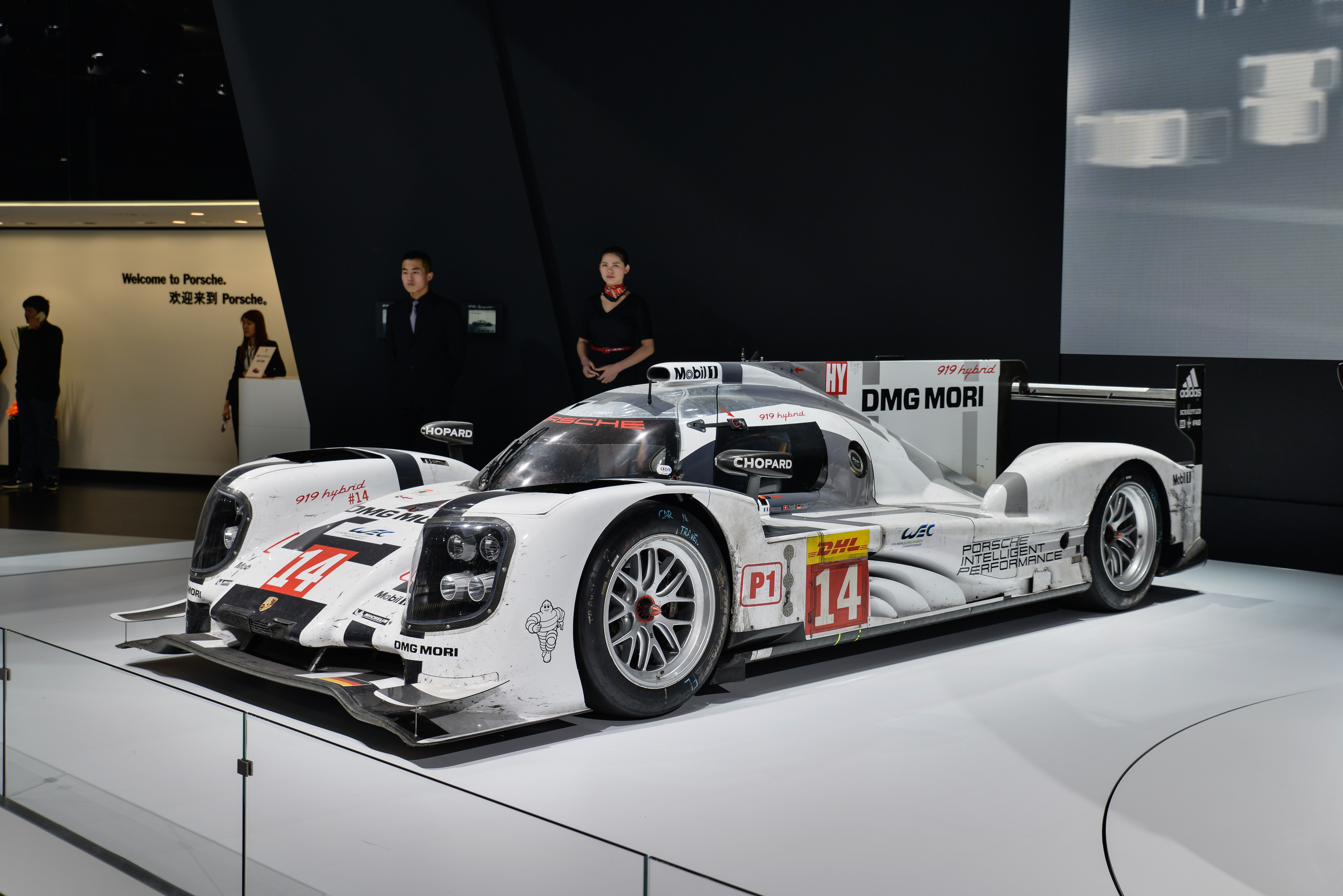 2014 edition Auto Shanghai 2015